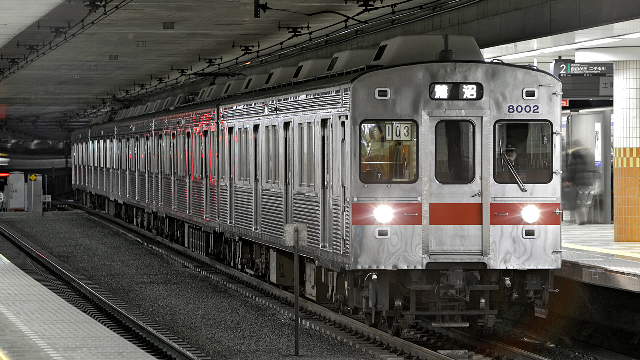 The Tokyu 8000 series EMU at Ōokayama Station, Ōimachi Line.